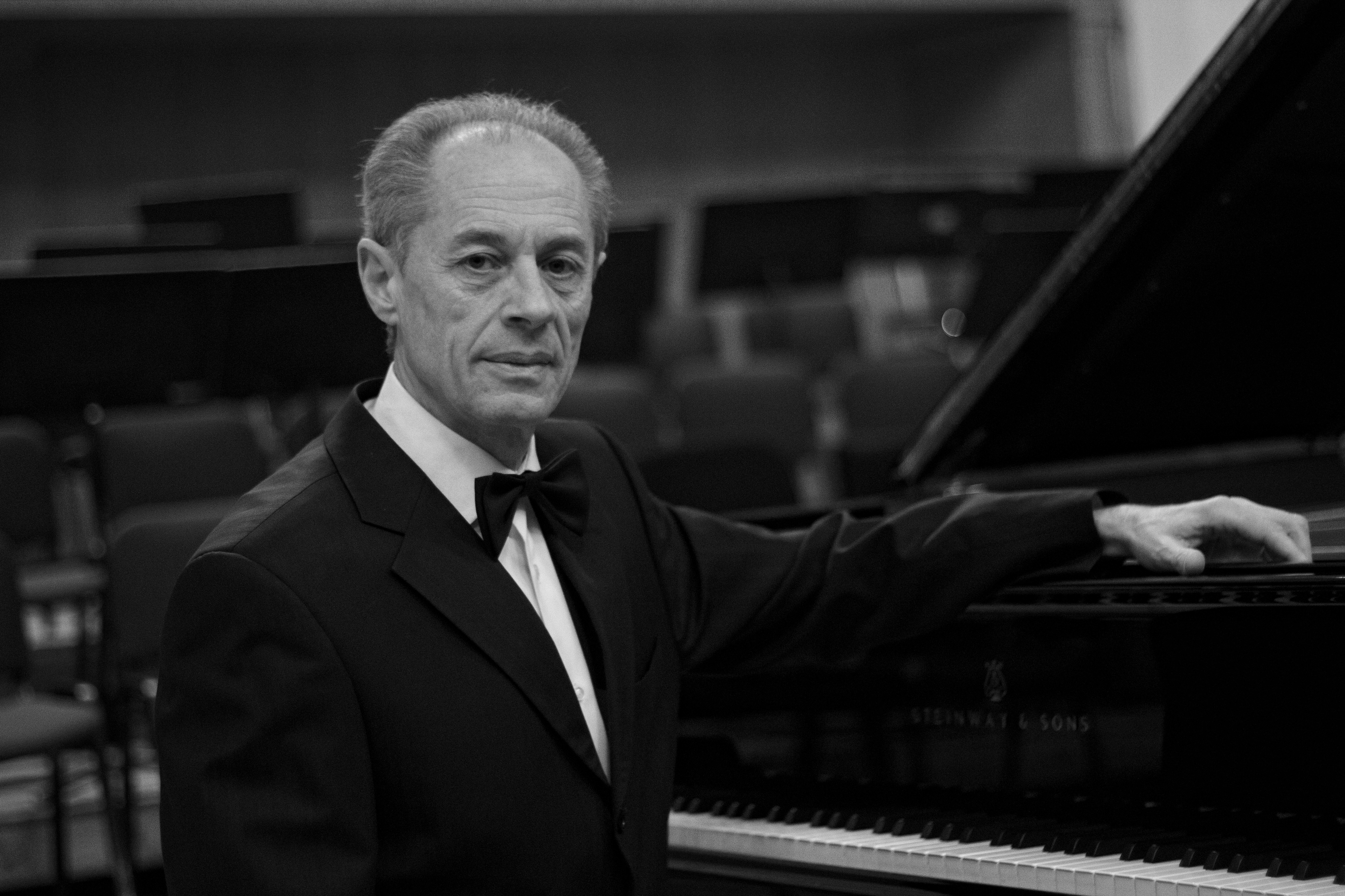 Composer's photo to be used for cover of upcoming his new double album «Orchestral Pieces» - 2 set CD «Exodus» & «Khalom»